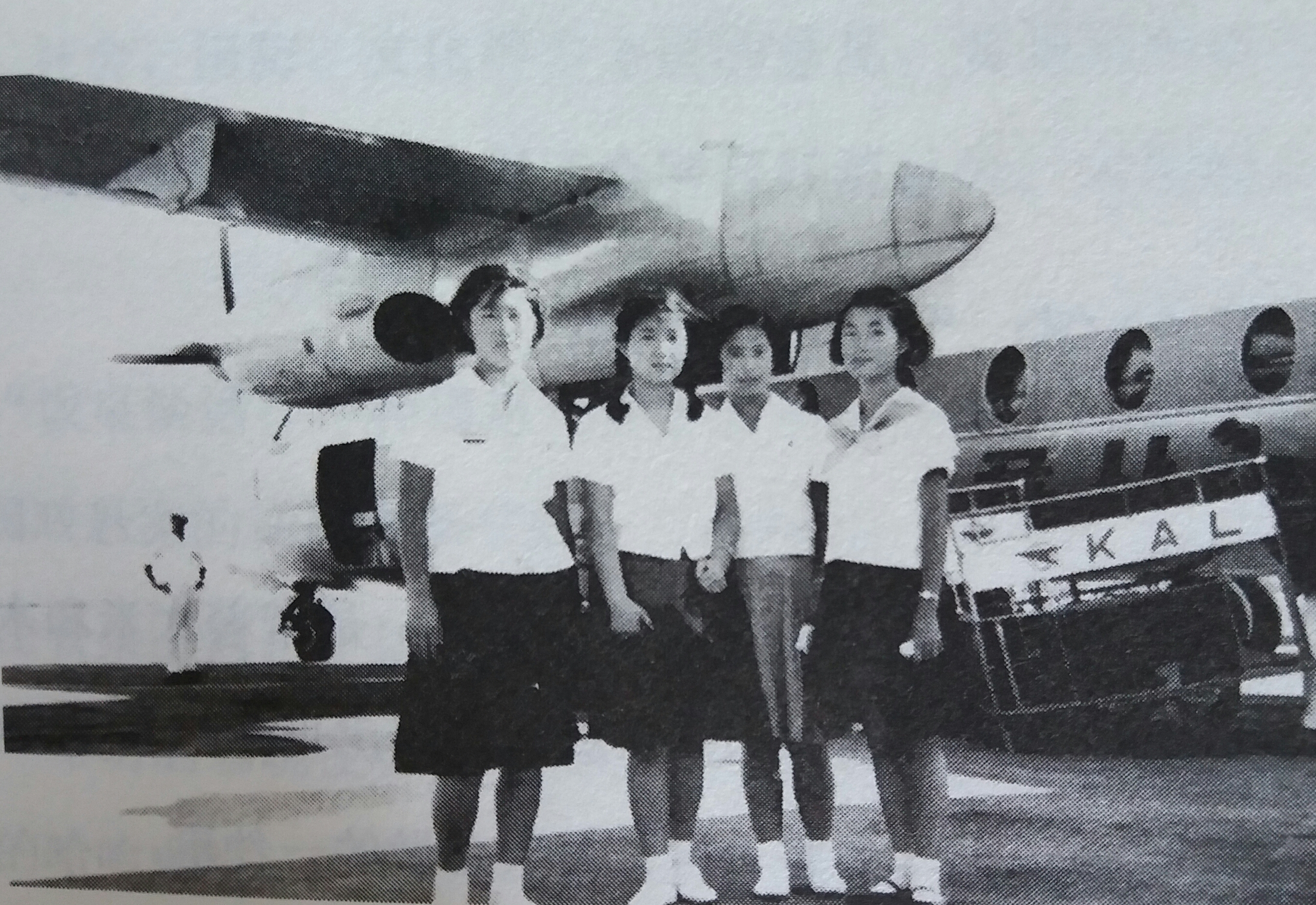 Park Geun-hye during childhood